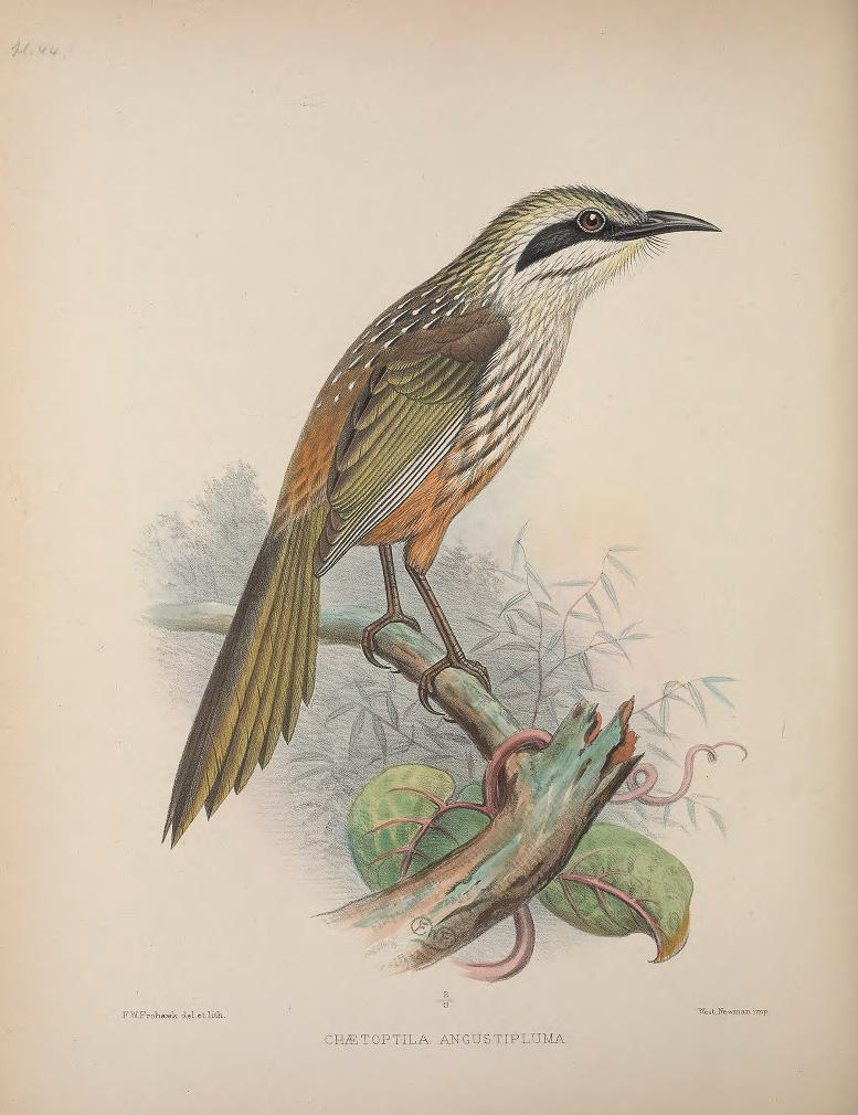 Chaetoptila angustipluma from The Birds of the Sandwich Islands